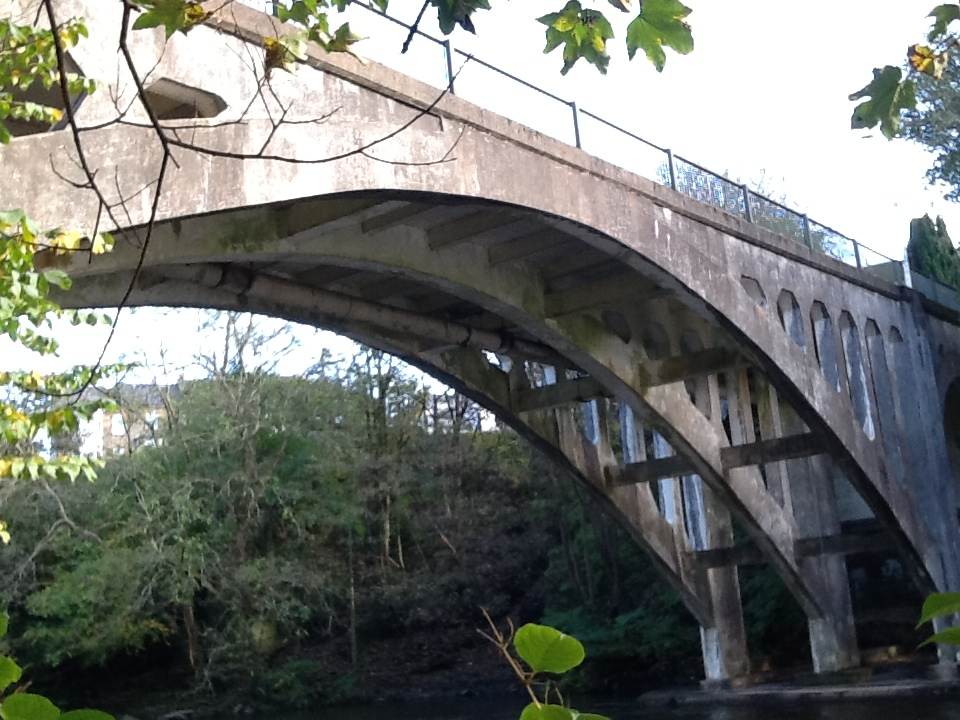 White Bridge, Pontypridd